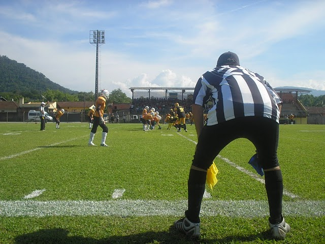 Game played between Joinville Gladiators and Corupá Buffalos on Kikcoff Tournament in the town of Timbo, Brazil on 18/04/2010.